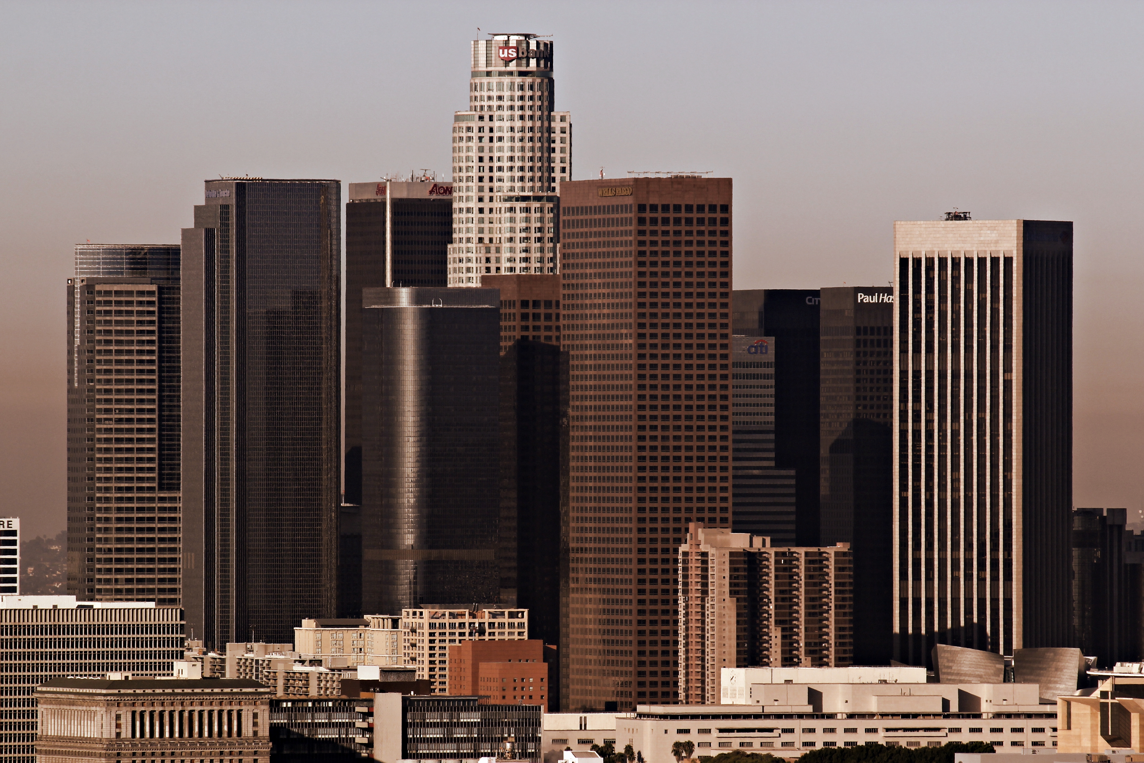 The skyline of downtown Los Angeles on a summer morning. Los Angeles, California, USA